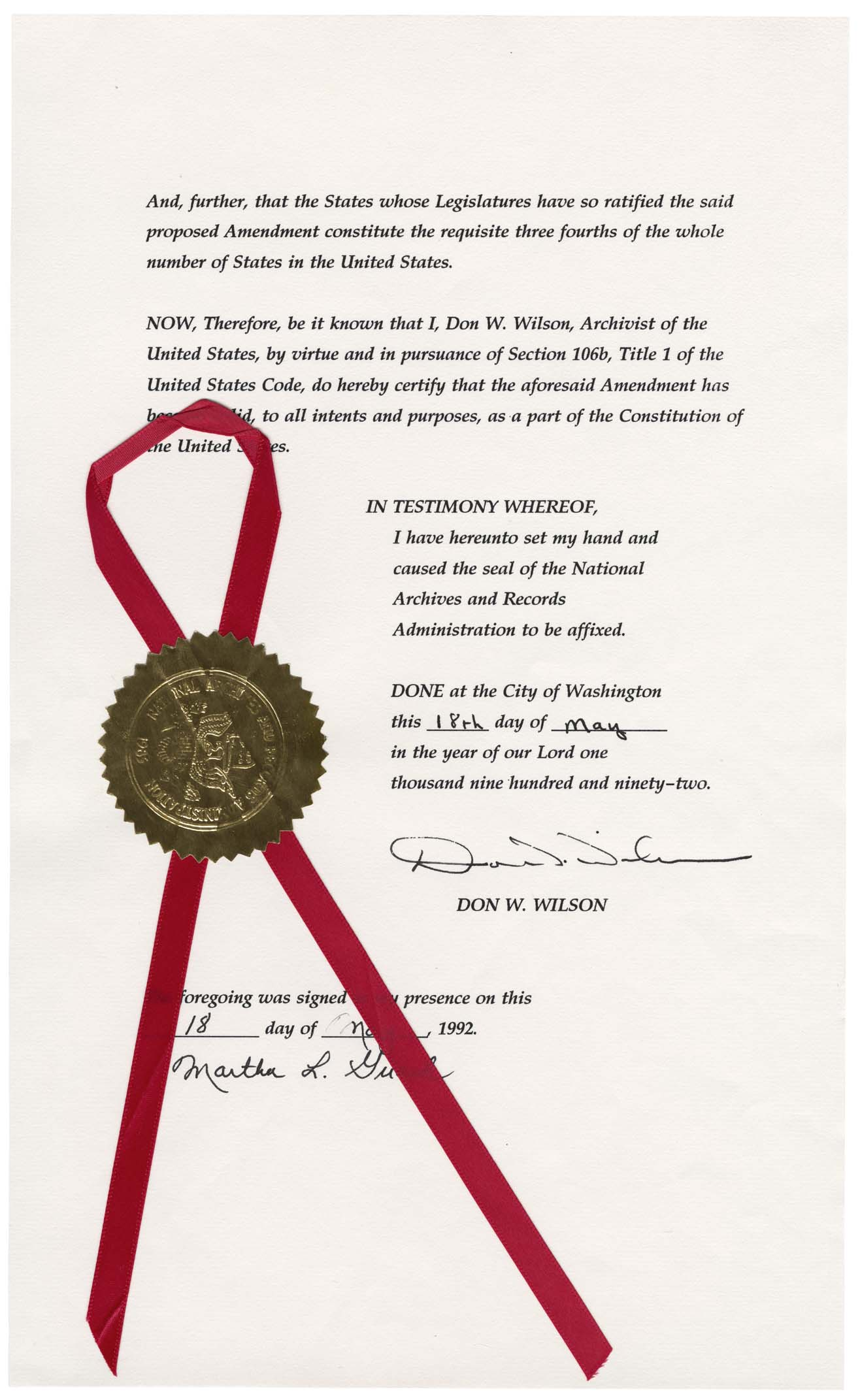 Certification of the Twenty-seventh Amendment to the United States Constitution Pg3of3